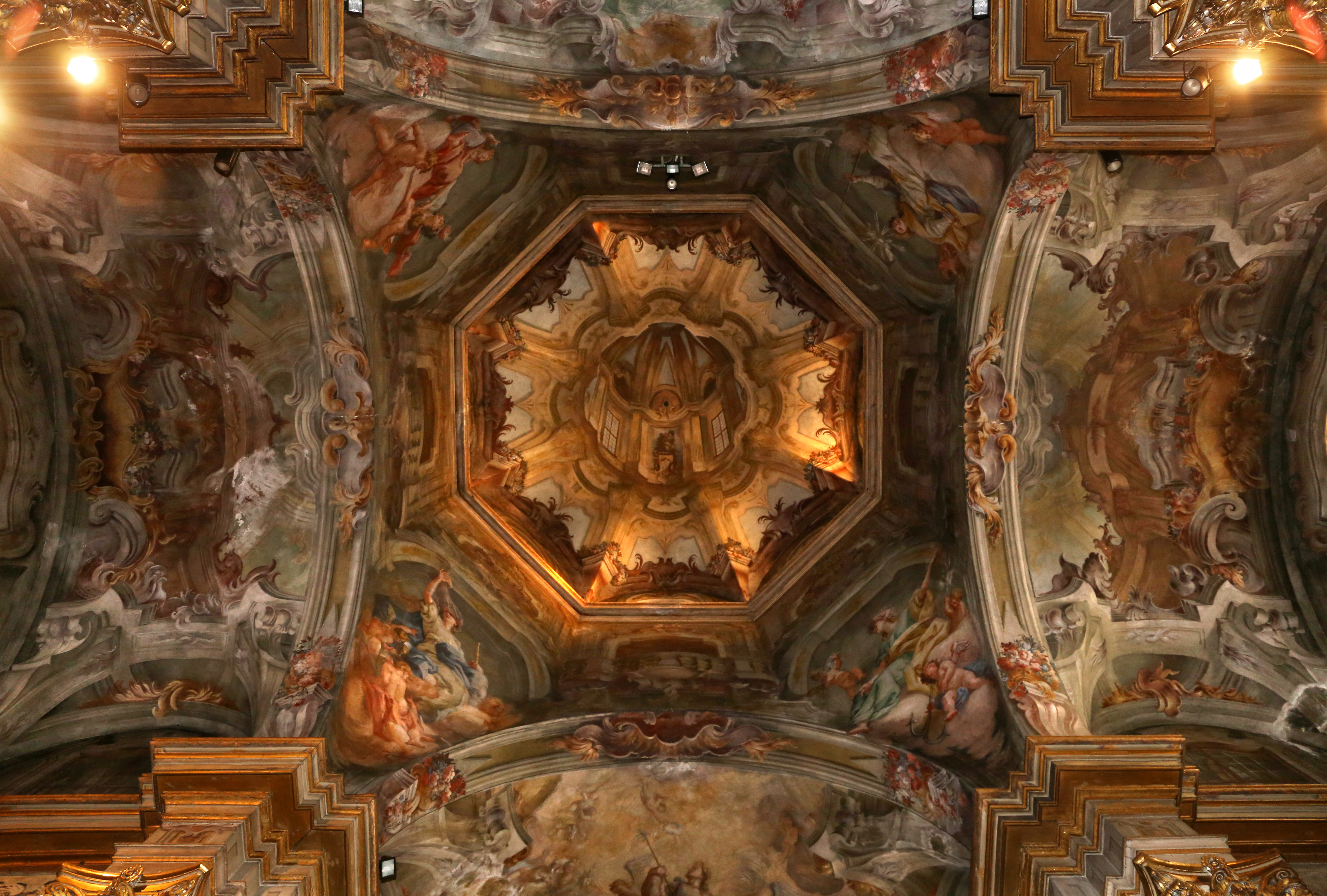 San Cristoforo (Vercelli)